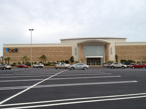 Belk at Citadel Mall in Charleston, South Carolina